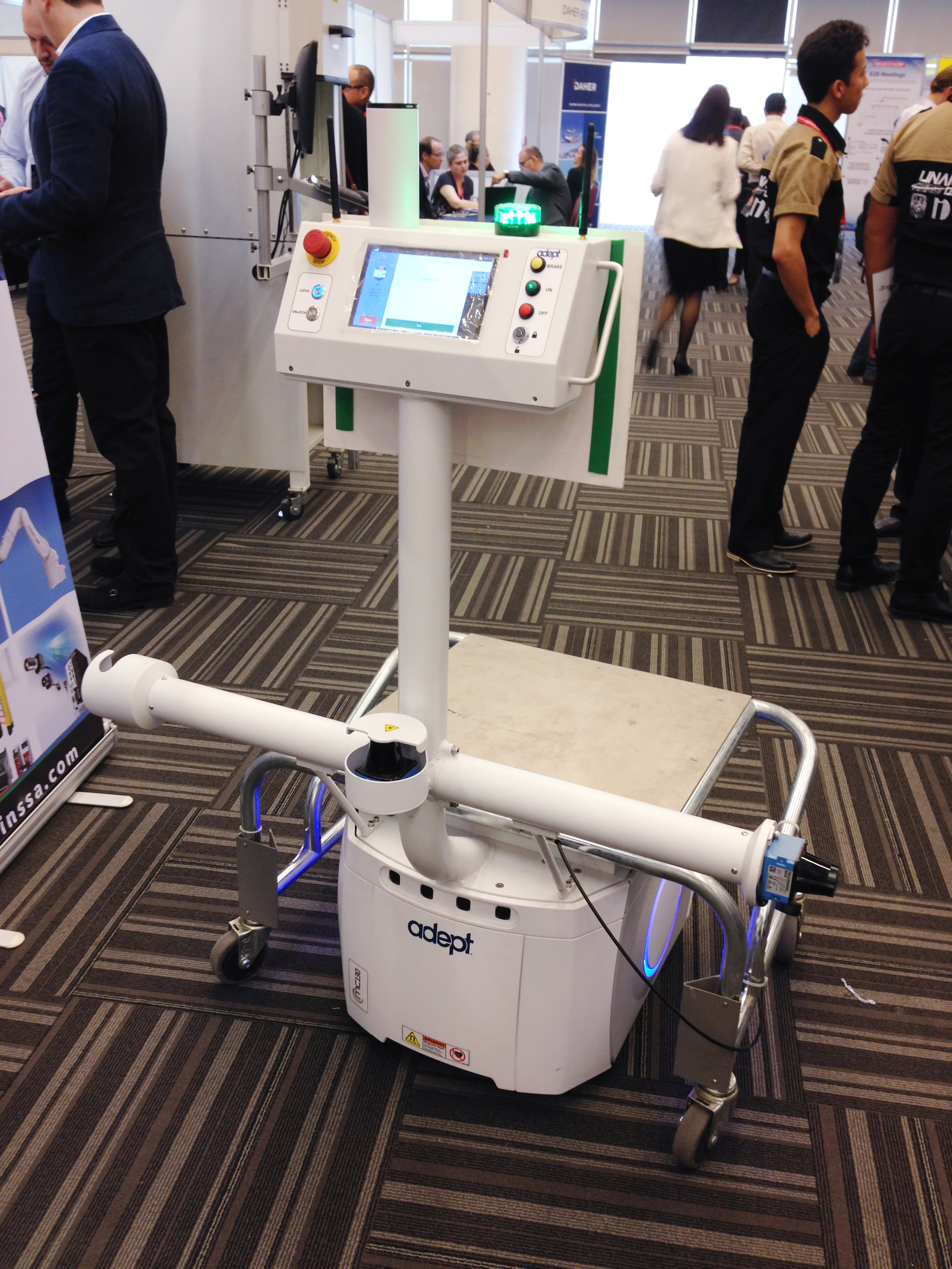 Adept Technology's Automated guided vehicle on a trade show in Queretaro, Mexico.